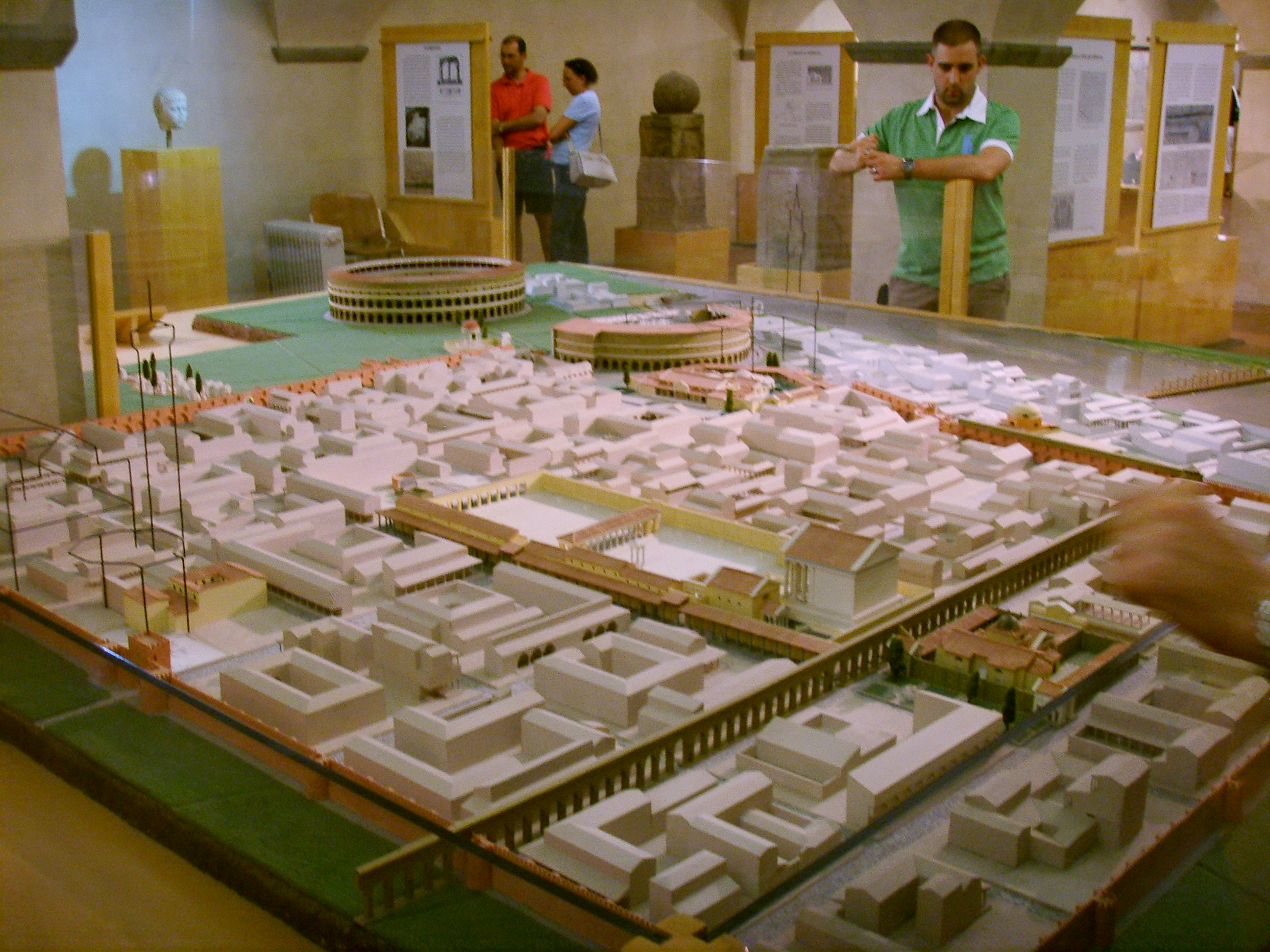 Museo Firenze com'era, archaeological room, florentia's reconstruction in Florence, italy